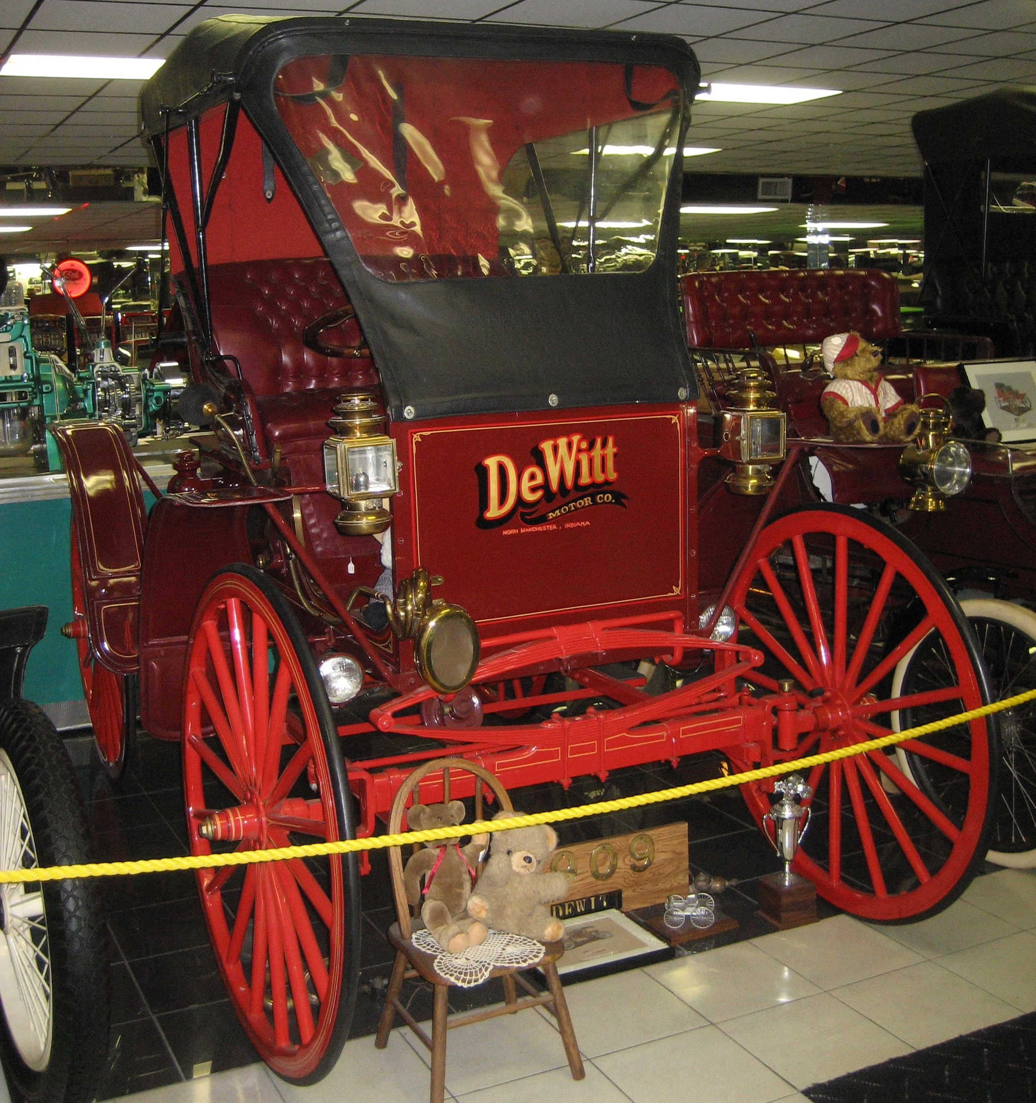 1909 DeWitt on display at Tallahassee Automobile Museum. Comment: I am unsure if this is an original or one of the replicas created in the 1980s.